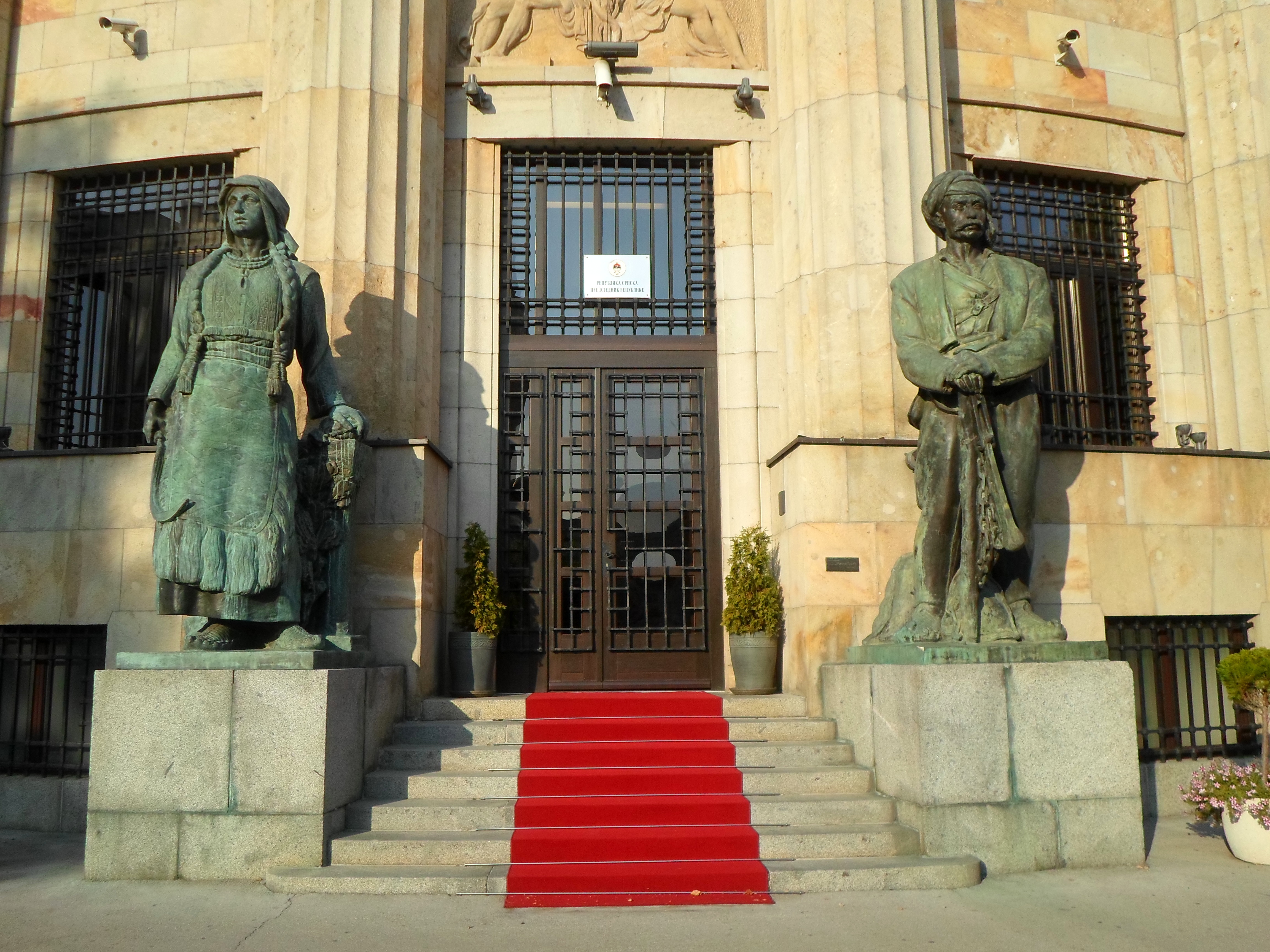 Банова зграда управе This image was uploaded as part of Trace of Soul 2015.